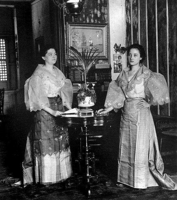 Spanish "mestiza" girls in native dress - Manila.